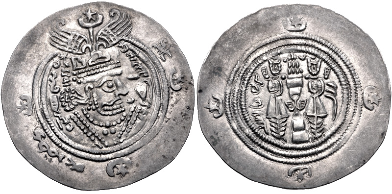 Hephthalites. Anonymous. Before AD 700. Imitating Khosrau II